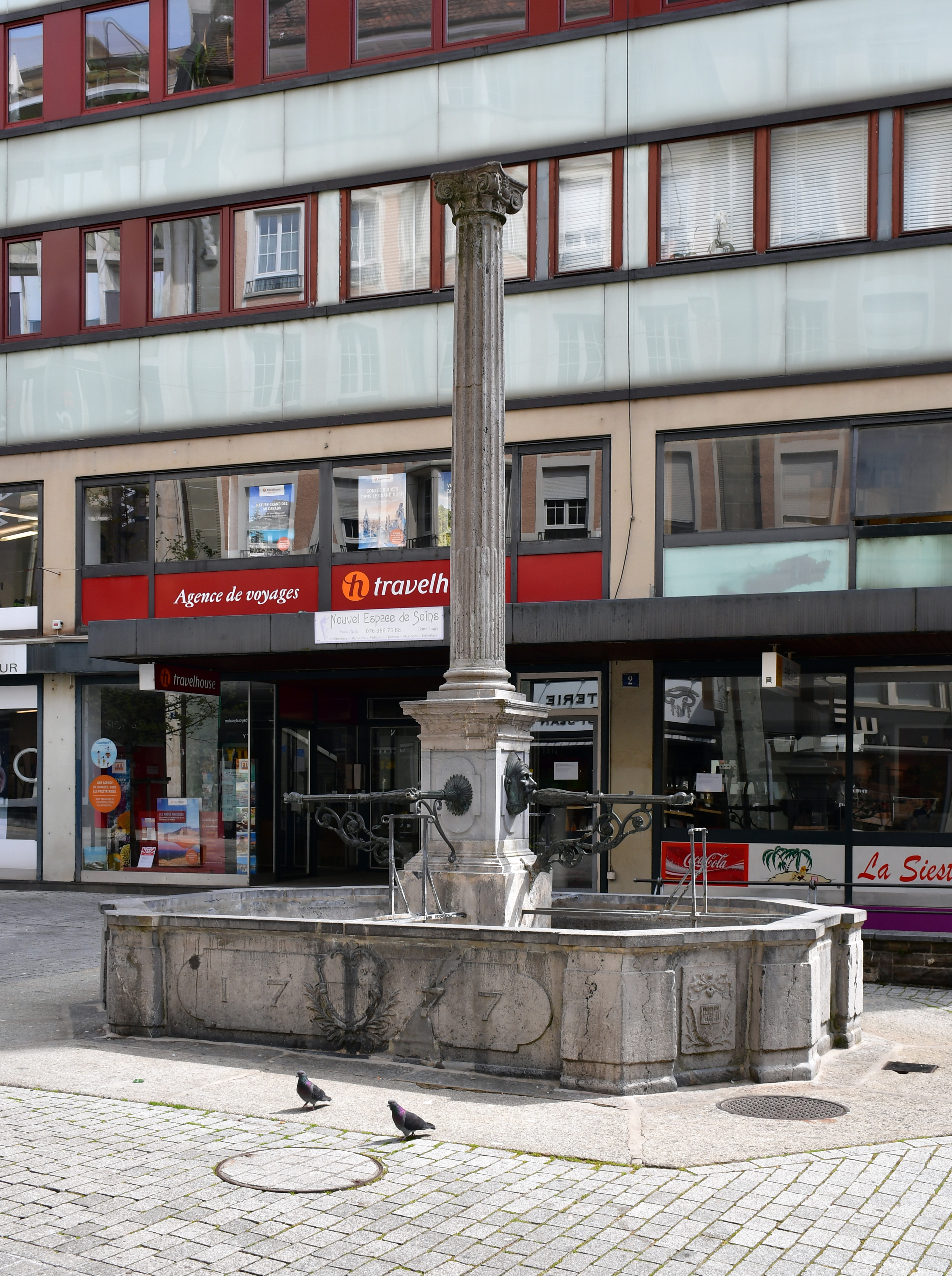 Fountain at Place du Grand-Saint-Jean, Lausanne (Switzerland).